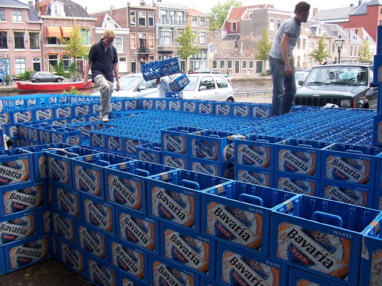 building the castle in the el-cid week